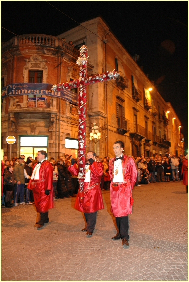 The 'Tronco', particular cross of red velvet dressed again of silver course in procession on holy Fridays, to Sulmona.